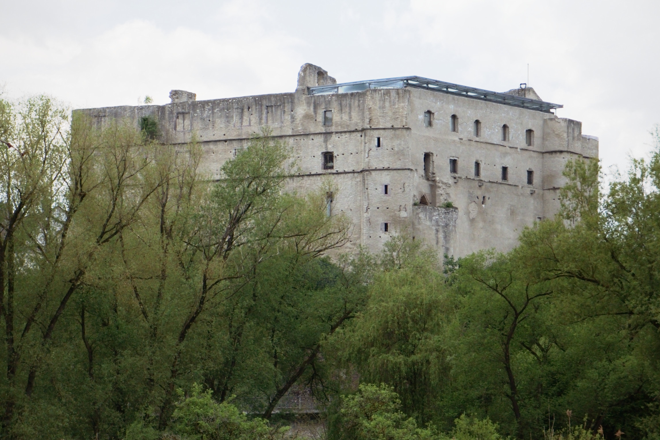 Laneburg castle (aka Schloss Löhnberg), Löhnberg, Germany. View from eastern direction, i.e. from the direction of the river Lahn.